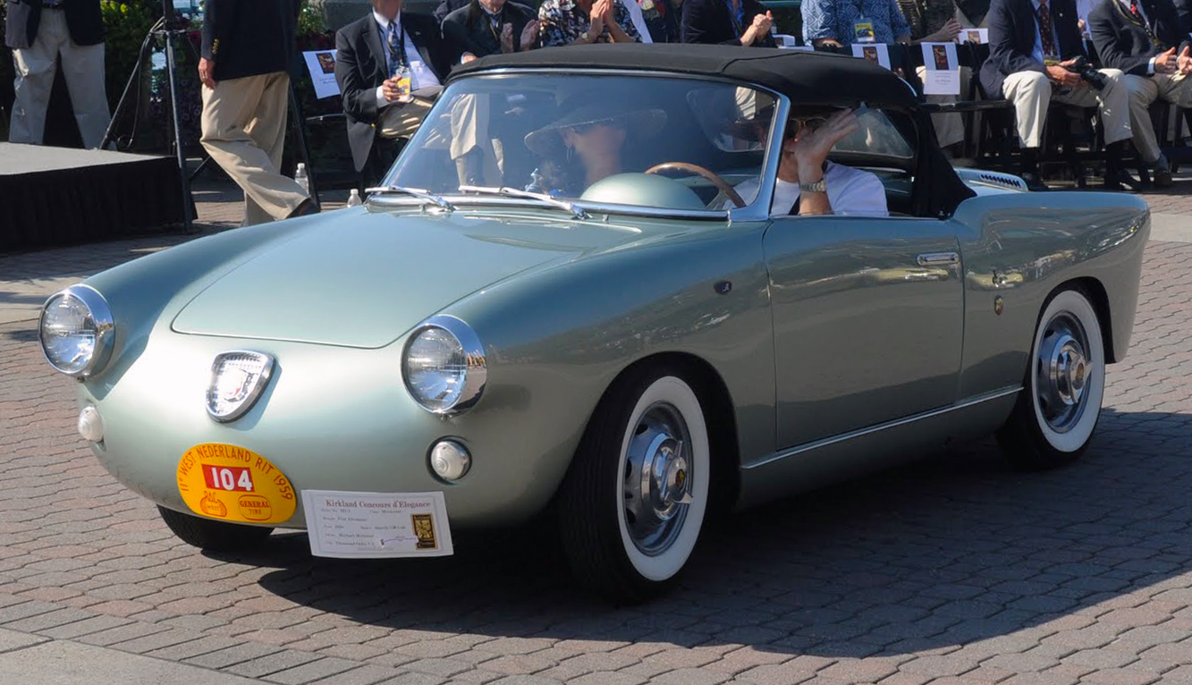 1958 Abarth 750 Spider by Allemano, the last year of this very rare bodystyle